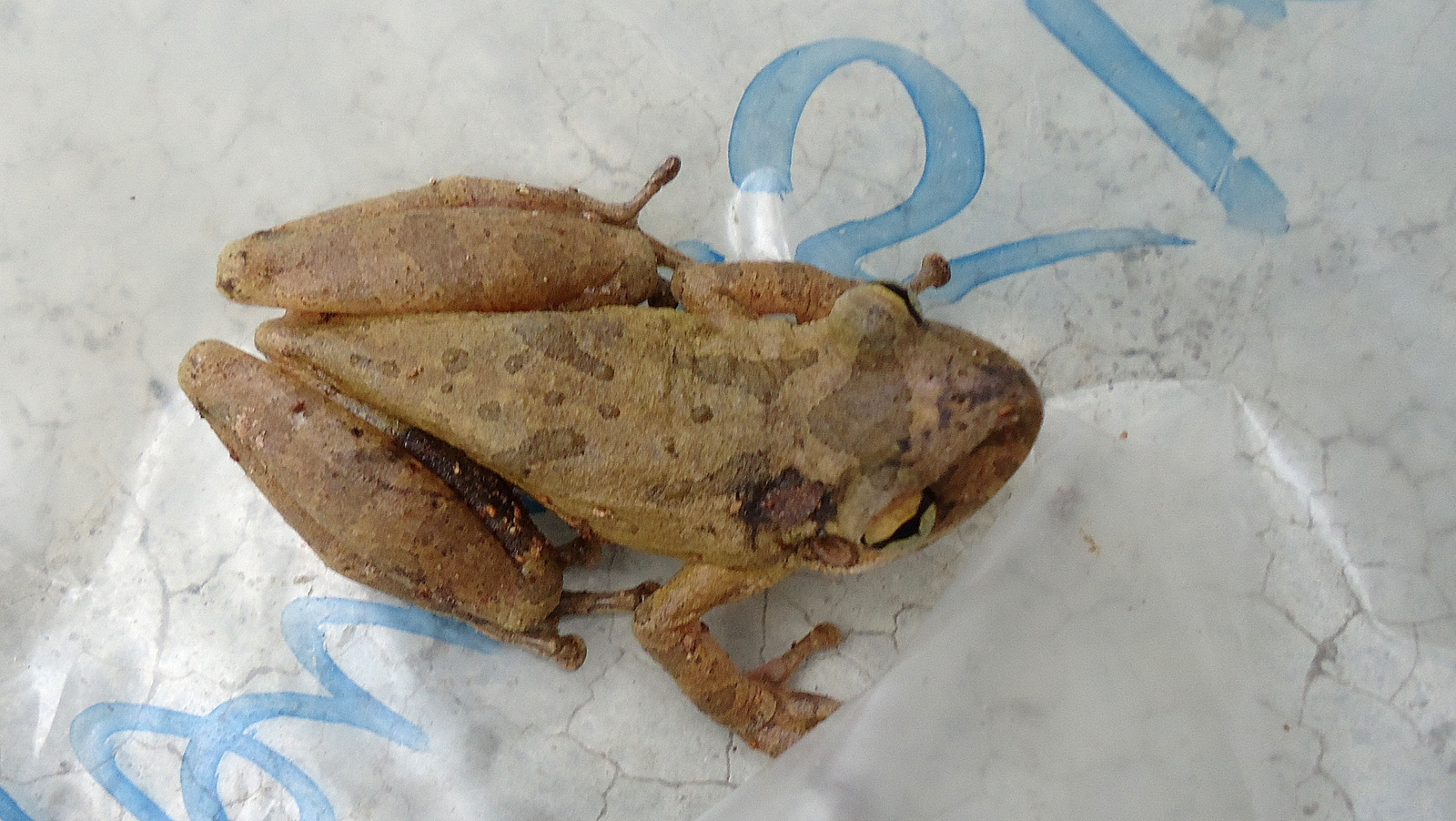 Scinax eurydice (Bokermann, 1968)